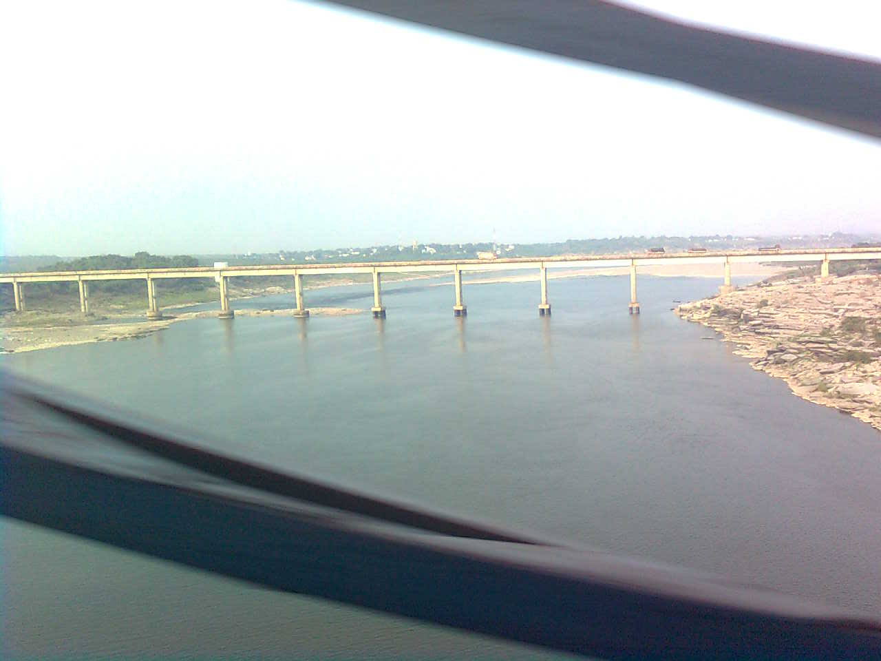 This is a capture from a moving train on krishna river bridge on the border of guntur-nalgonda districts of Andhra Pradesh